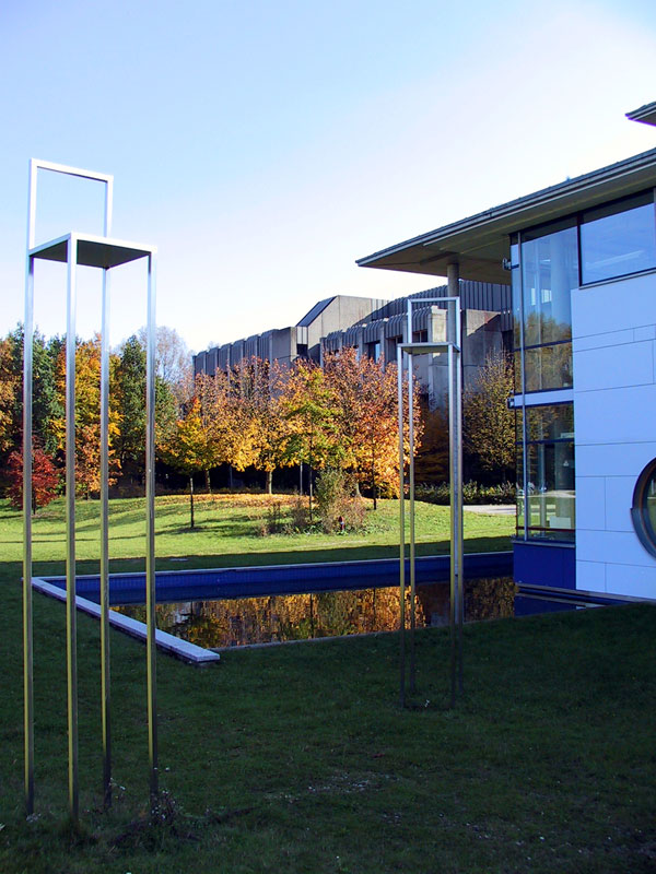 Campus art